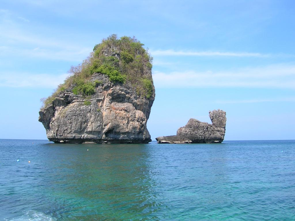 Sightseeing in Thailand. Photo by Brownie13.